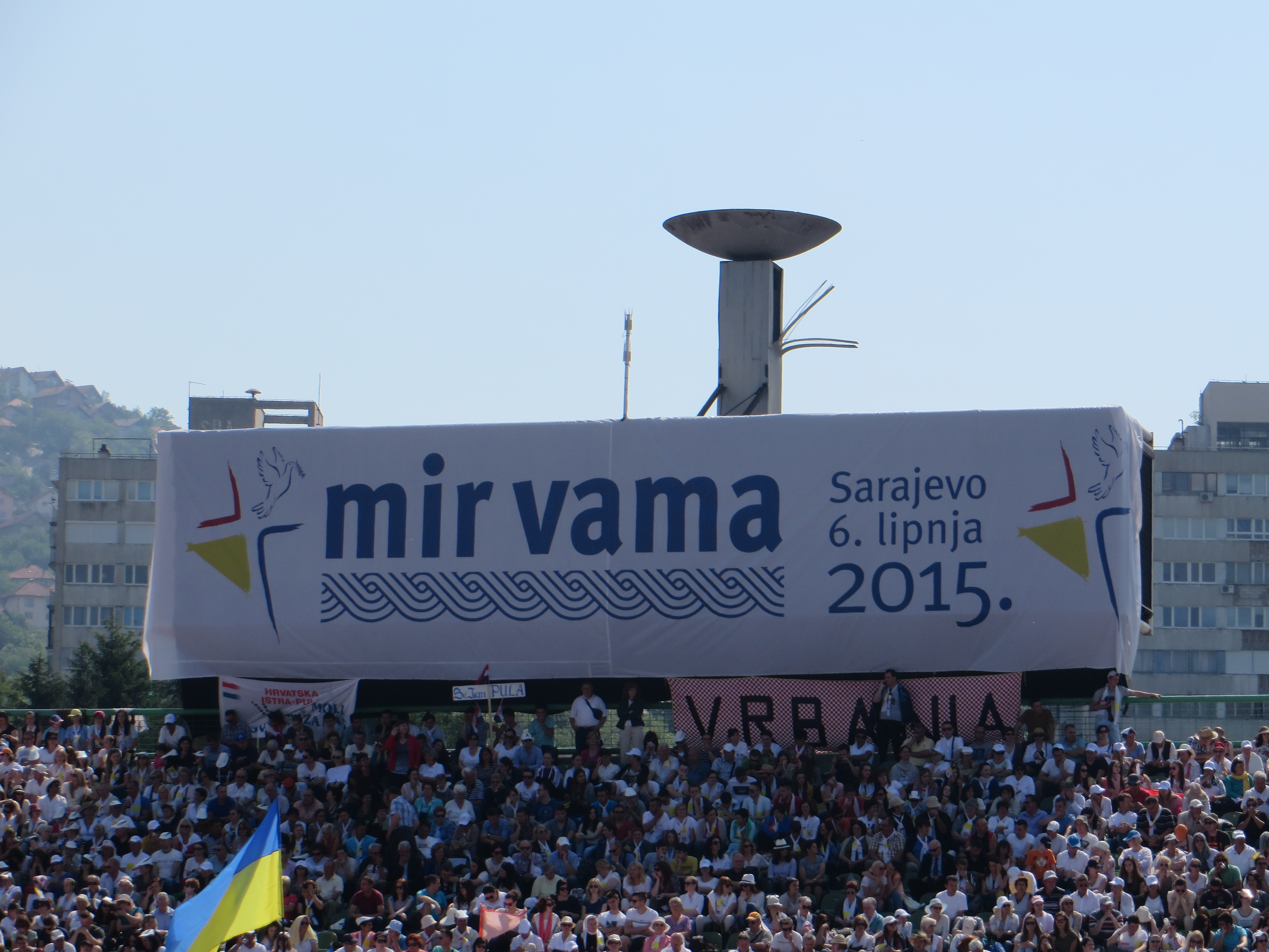 Pope Francis in Sarajevo